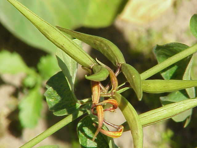 Species: Vincetoxicum hirundinaria Family: Asclepiadaceae Image No. 1